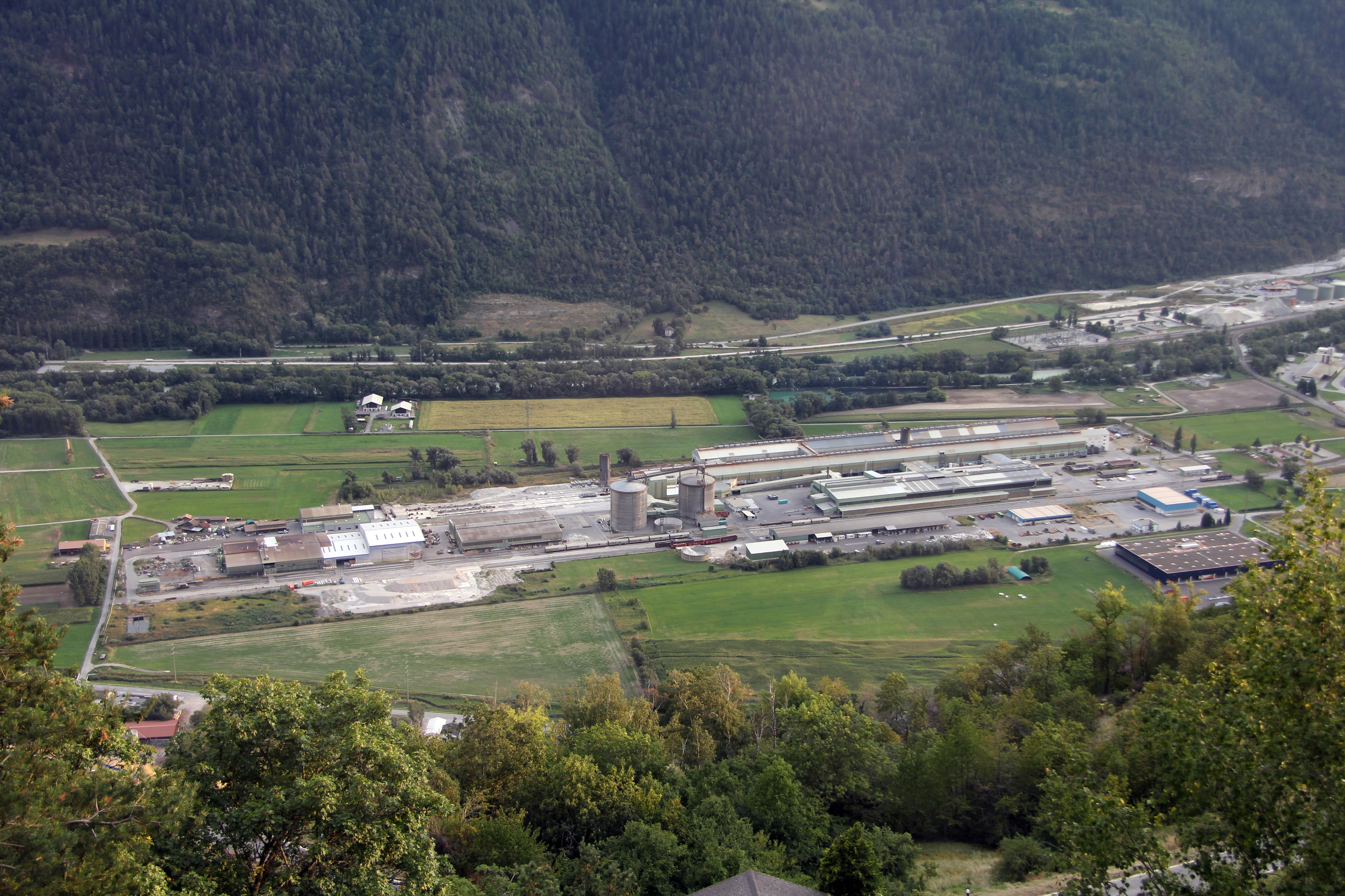 Constellium site of Steg, view from the Lötschberg railway line. Object location46° 18′ 43.48″ N, 7° 45′ 45.54″ E